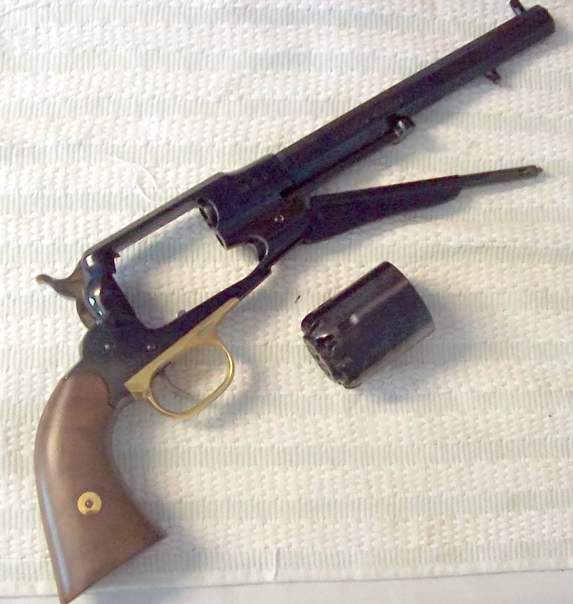 An unloaded Remington New Army Model 1858. Single action, cap and ball revolver.